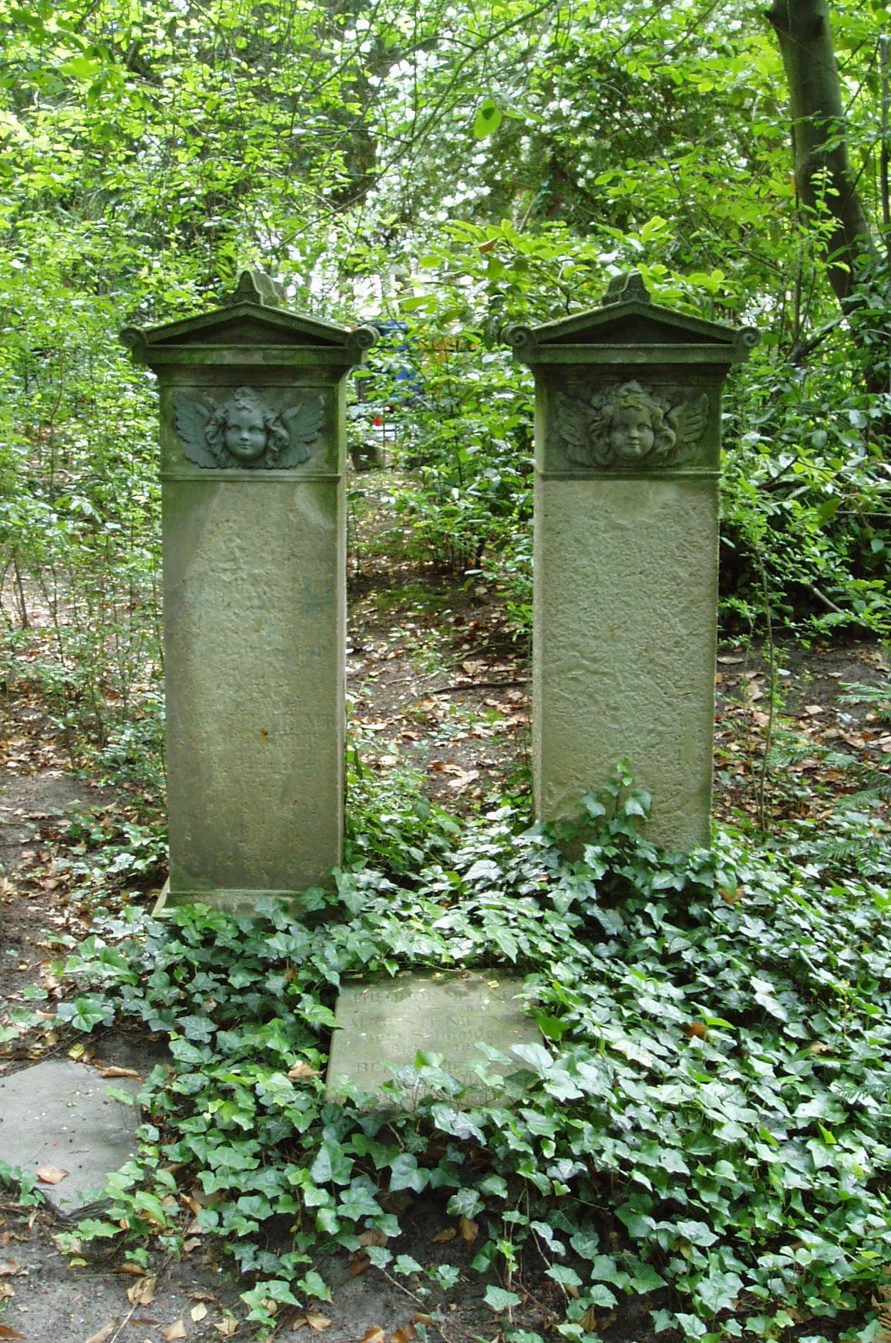 Grave steles for Berta Nietner, royal gardner Theodor I. Eduard Nietner and Auguste Nietner on the graveyard Bornstedt, Potsdam, Germany